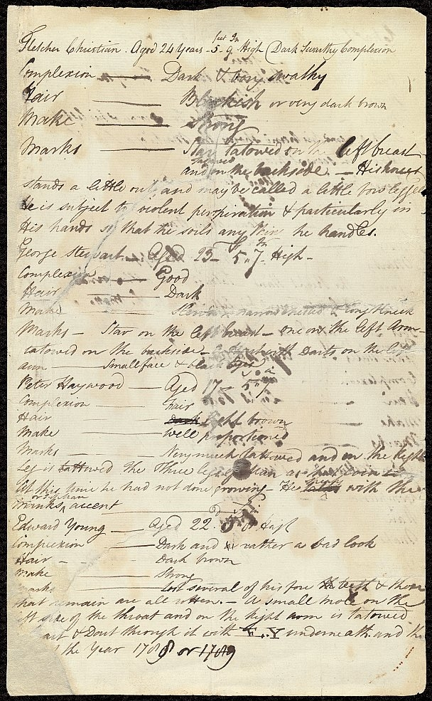 Page one of the list of those involved in the Mutiny of the HMS Bounty. Notebook and list of mutineers, 1789 [manuscript], National Library of Australia, MS 5393, [manuscript item number]. All pages of the list of mutineers can be seen here: All pages of the Notebook can be seen here: Collection number: MS 5393 Extent: 107 p., 3 fol. leaves. Unpublished autograph manuscript Lieutenant William Bligh's voyage in the Bounty's launch from the ship to Tofua and from thence to Timor 28 April to 14 June 1789. It is the original notebook from which Bligh wrote all his subsequent narratives. The notebook itself belonged to Mr Hayward who was in the launch with him and there are 1 1/2 p. of navigational recordings and calculations, 8 rough sketch charts of islands and showing the boat's track through the Barrier Reef and along the coast of Australia to the Torres Strait and one autograph chart headed: "Eye sketch of part of New Holland in the Bounty's launch by Lieut. Wm. Bligh". The list of mutineers is headed by Fletcher Christian who was second-in-command before the mutiny. Each mutineer's physical appearance is described in detail.